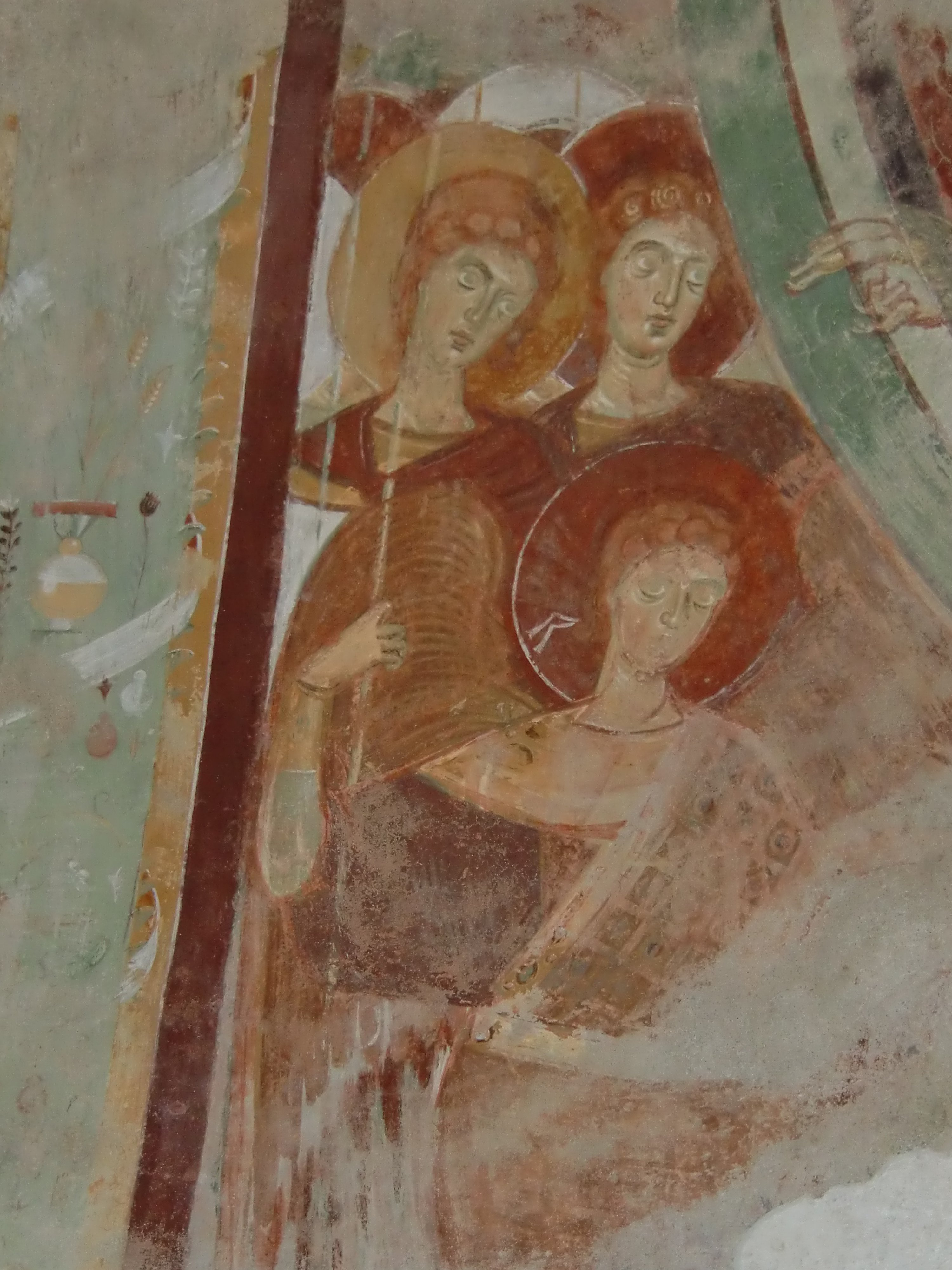 Oleggio, church of San Michele (XI century), St. Michael at the head of a troop of angels, frescoes of the apse